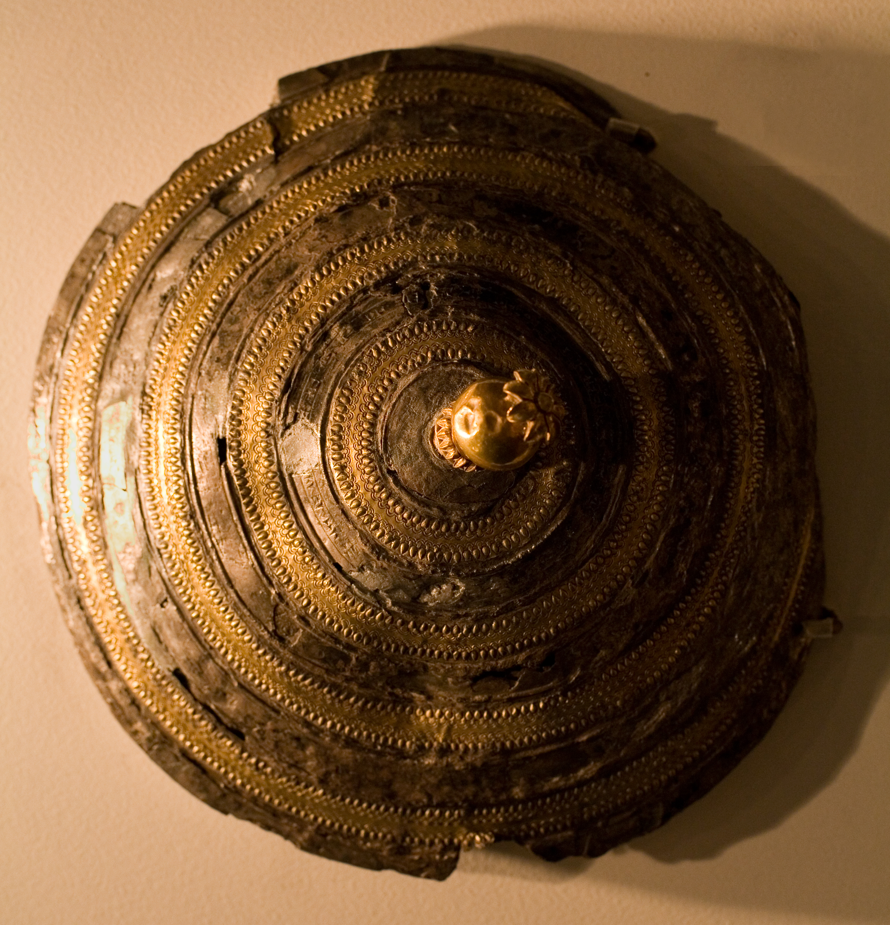 Caldron Lid (gold plated) (found during Karmir-Blur excavations)